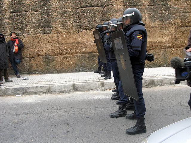 Several anti-riot officers in Casas Viejas (Spain).